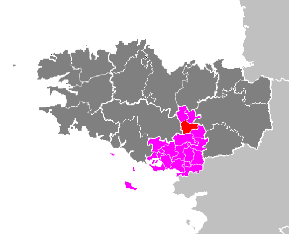 Maps of arrondissements and cantons of France: Arrondissement de Vannes - Canton de Ploërmel.PNG